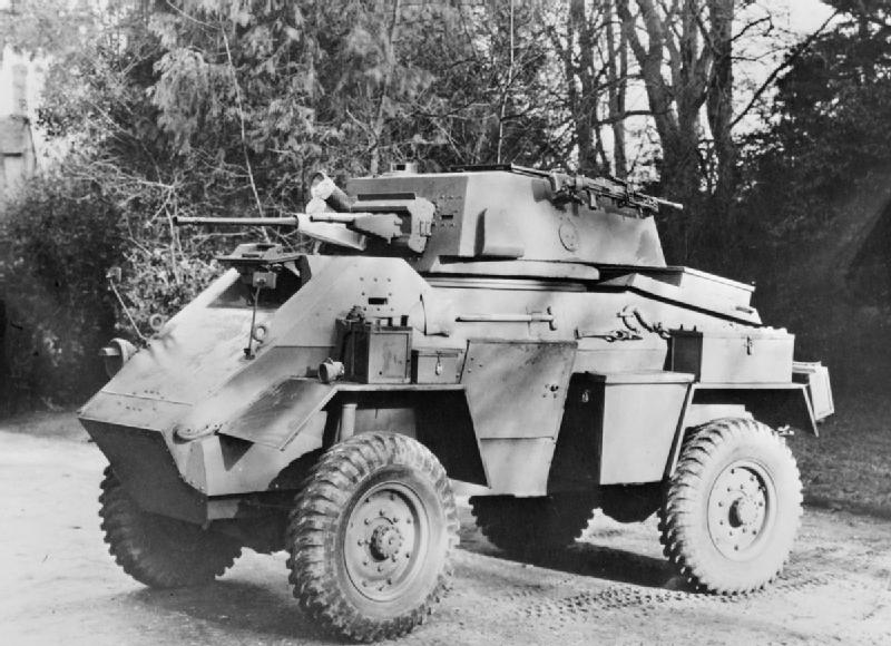 Tanks and Afvs of the British Army 1939-45 Humber Mk III armoured car